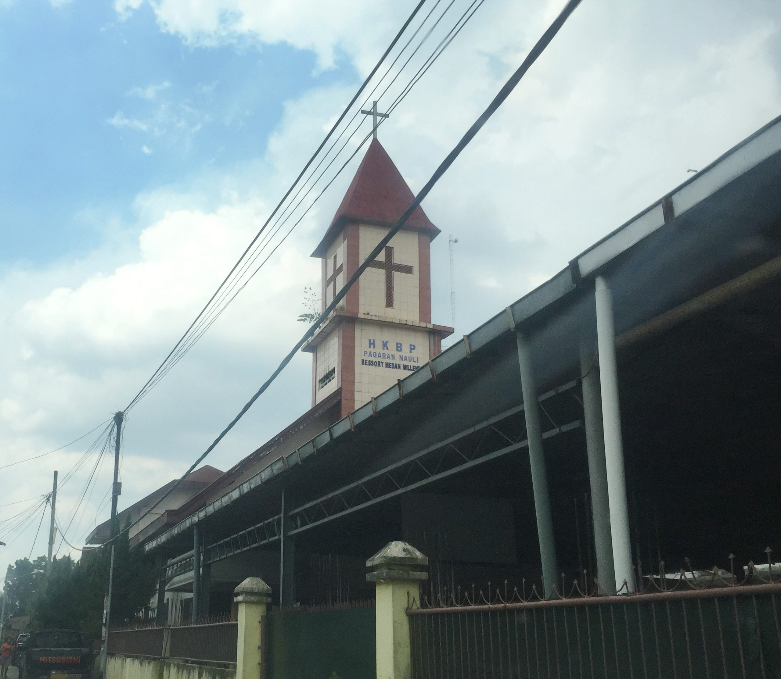 HKBP Pagaran Nauli, church in Dwikora, Medan Helvetia, Medan